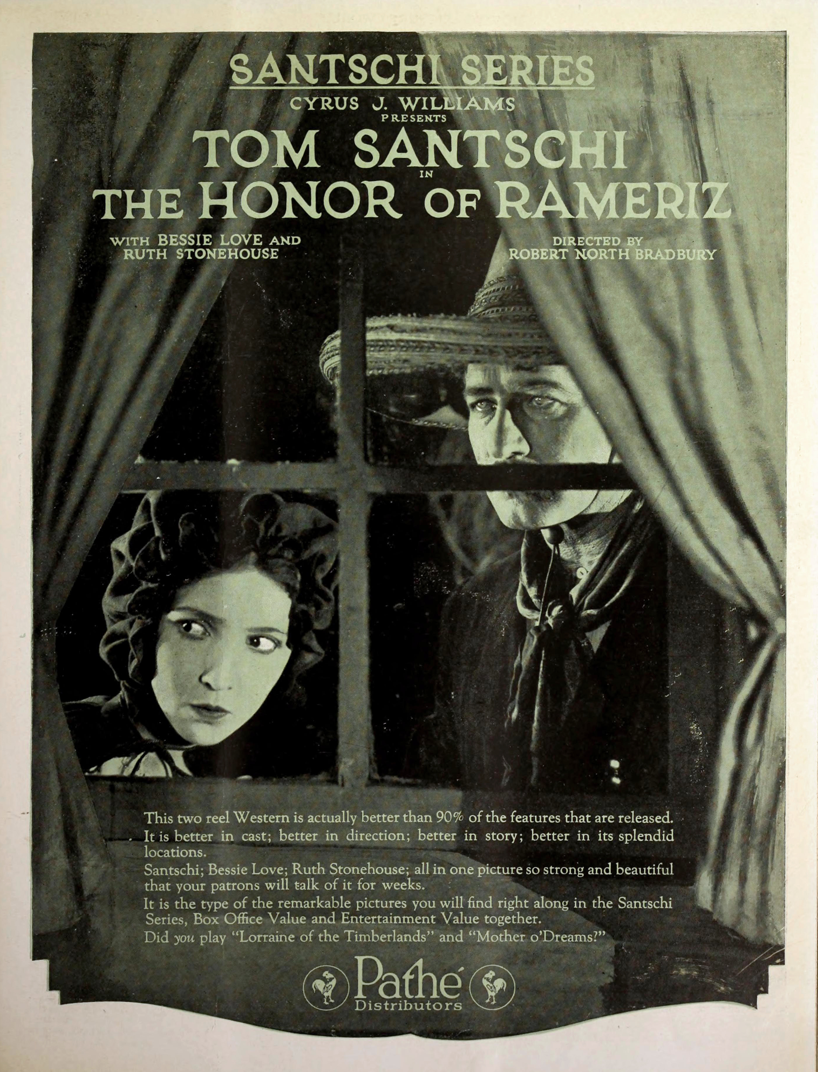 Actors Tom Santschi and Bessie Love in an advertisement for the silent Western short film The Honor of Rameriz (1921)